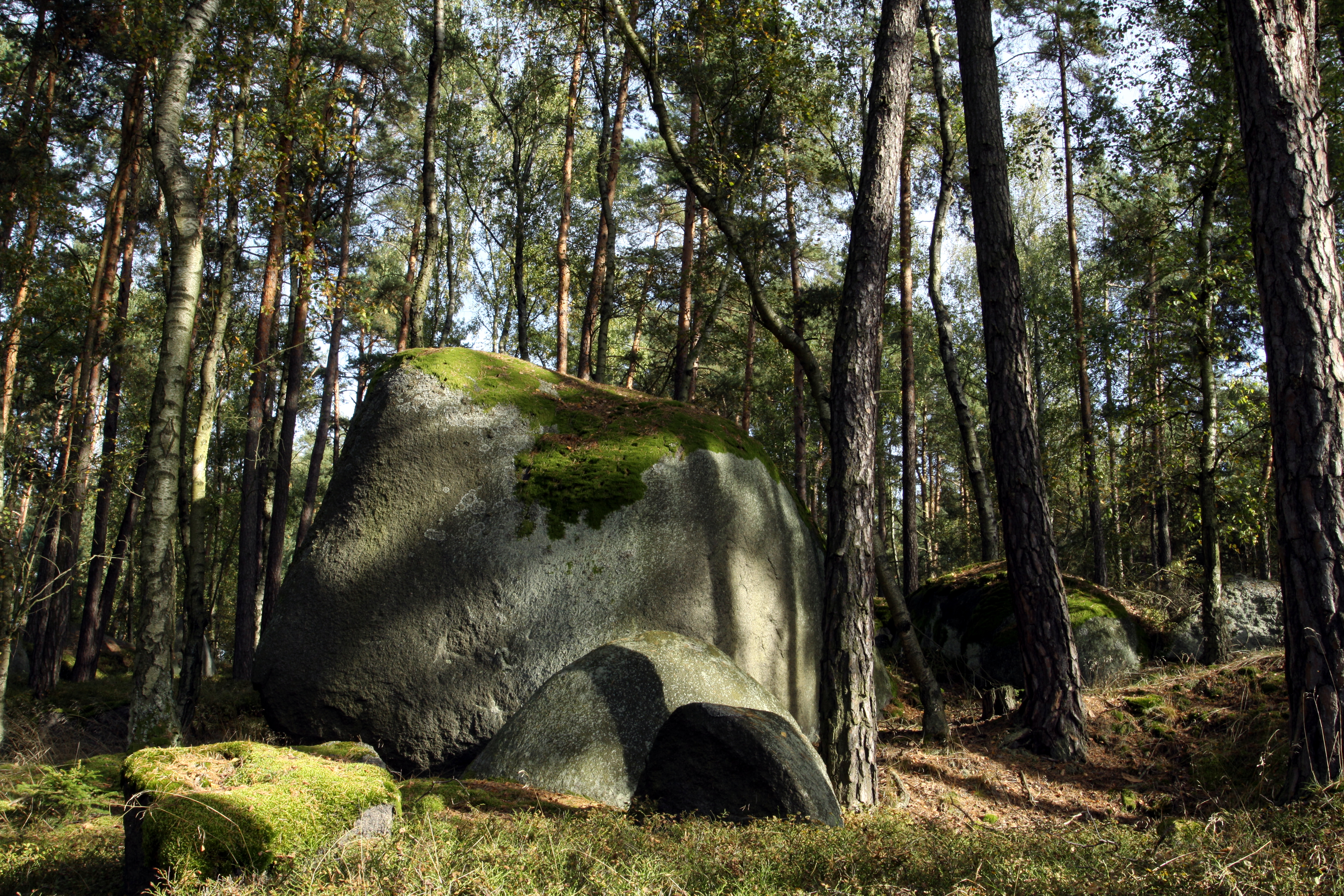 Natural monument Krtské skály near Krty village in Rakovník District, Czech Republic